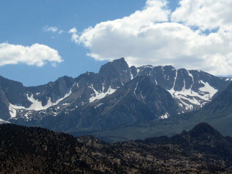 The east face of Mount Humphreys seen from highway 168 near Bishop, California, summer 2010.